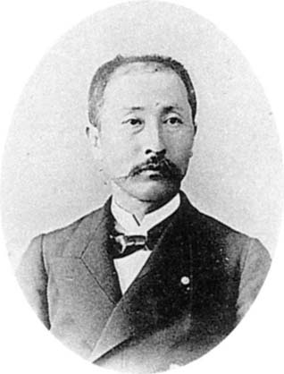 K. Tamari, Professor of Horticulture.